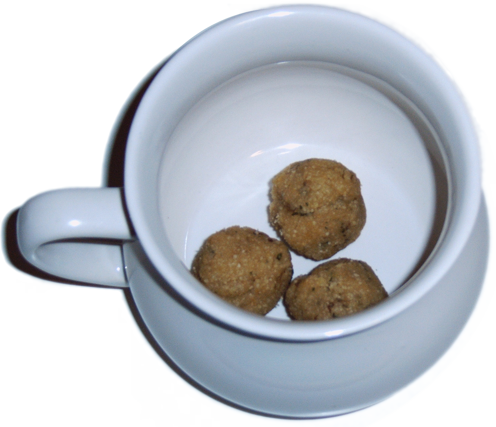 Marrow balls in soup terrine, made and photographed by myself.